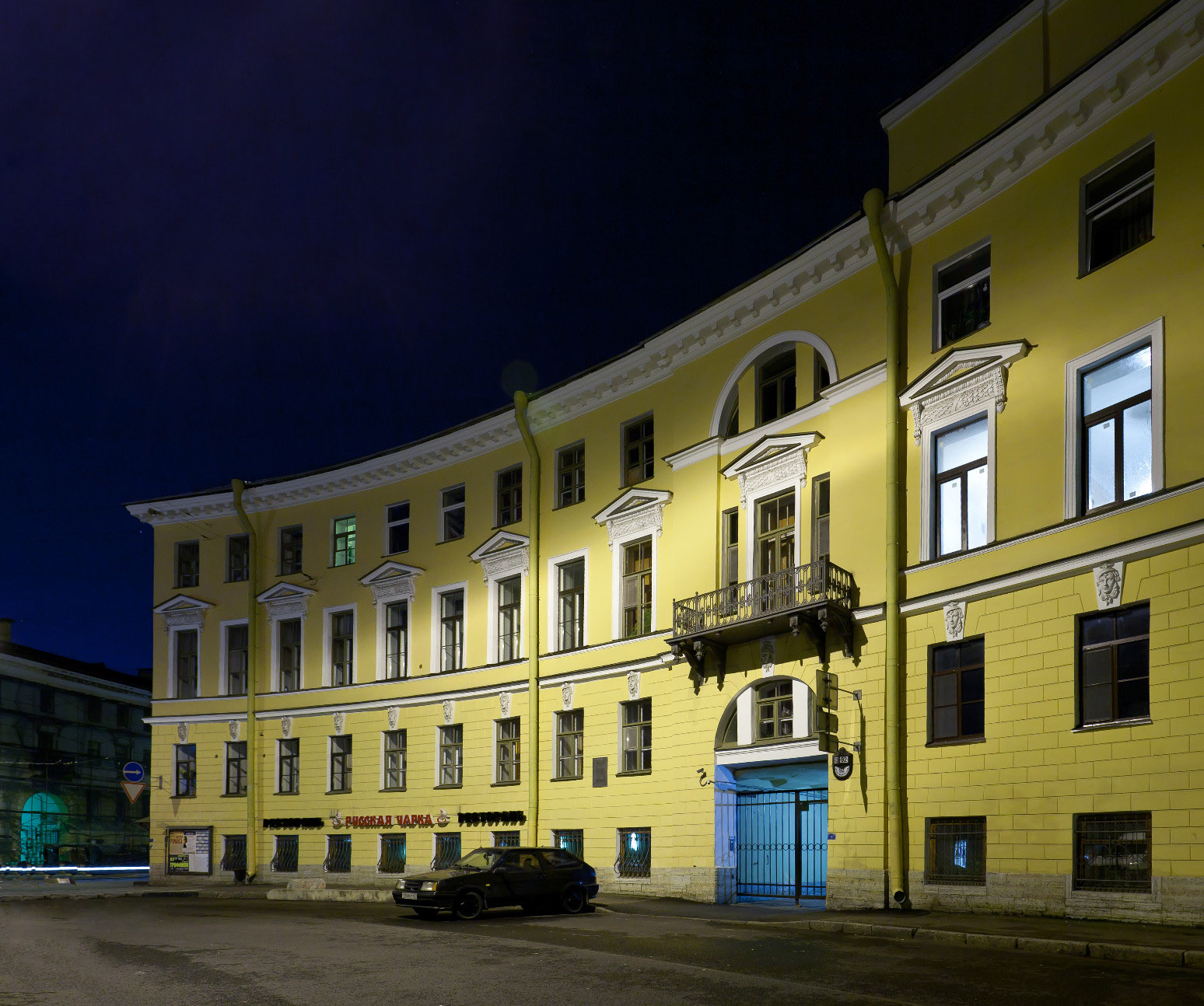 K. Ustinov's house